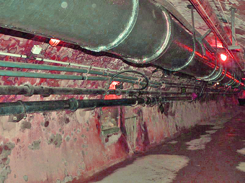 source:wikipedia